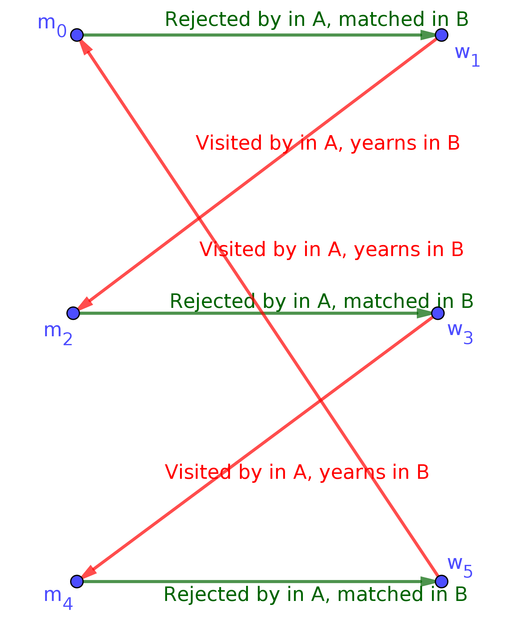 Proof that deferred acceptance is optimal for men